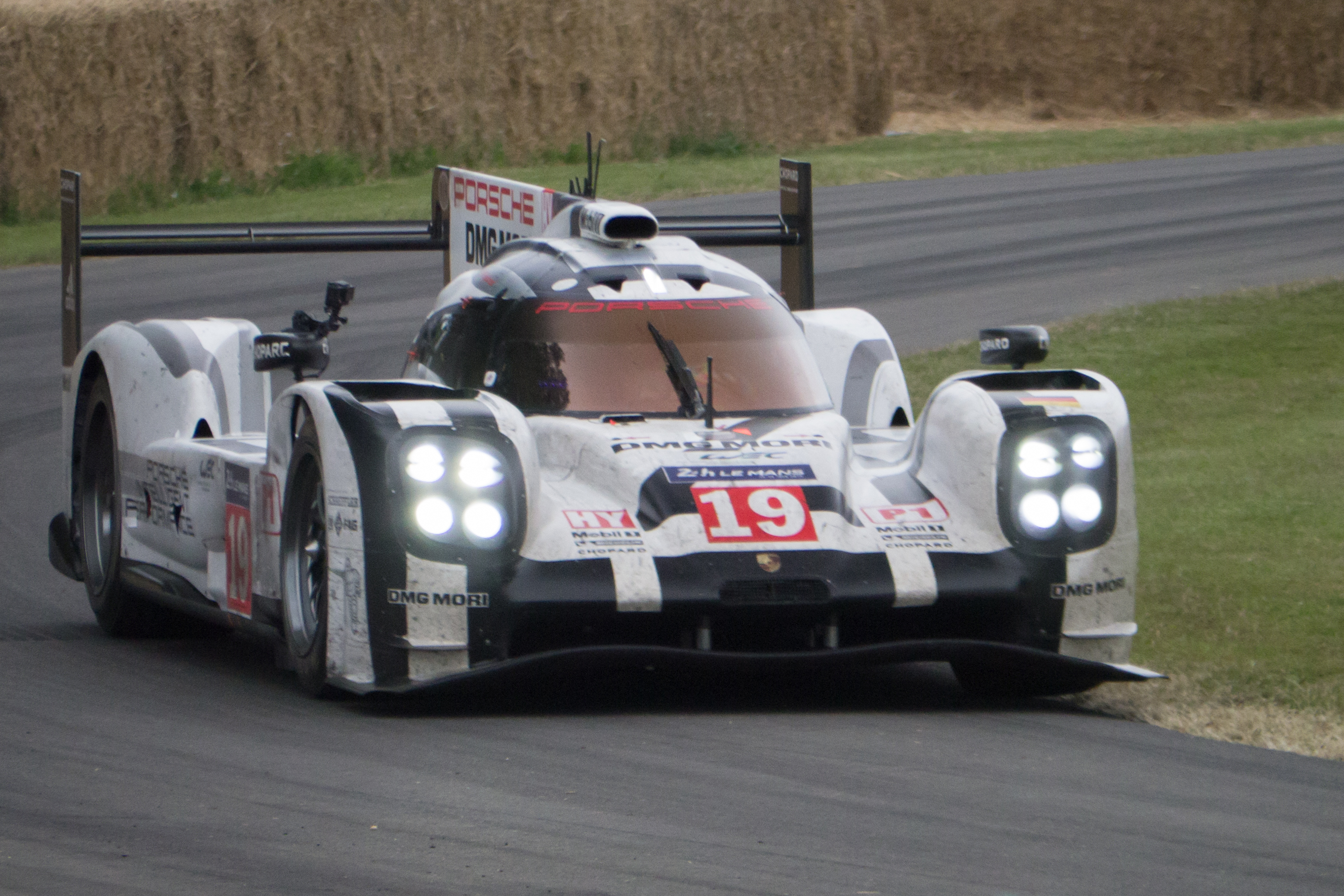 Achieved pole and the win at the 2015 Le Mans 24h